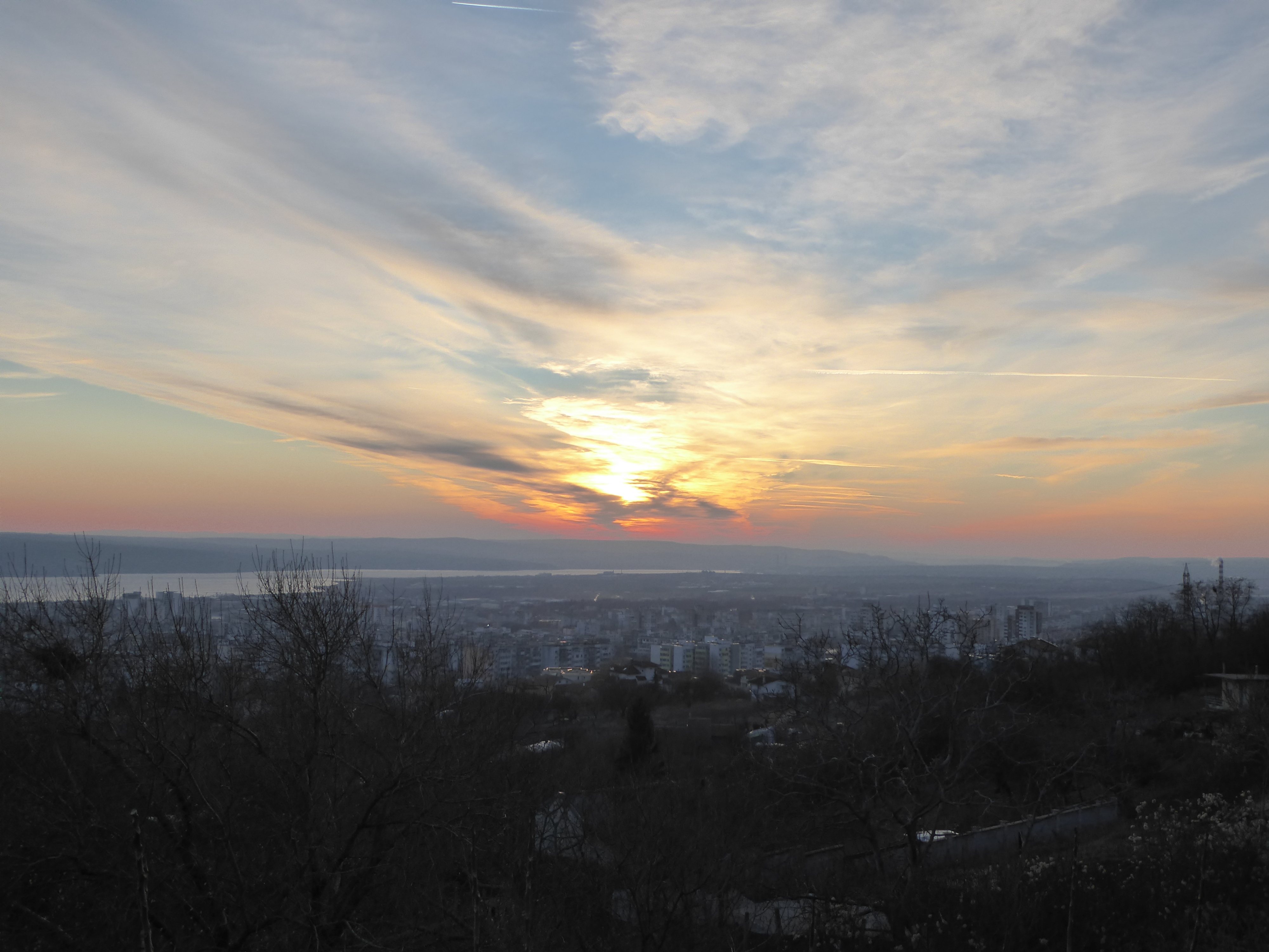 Royal Monastery „Holy Virgin“, Varna, Bulgaria, 9th century